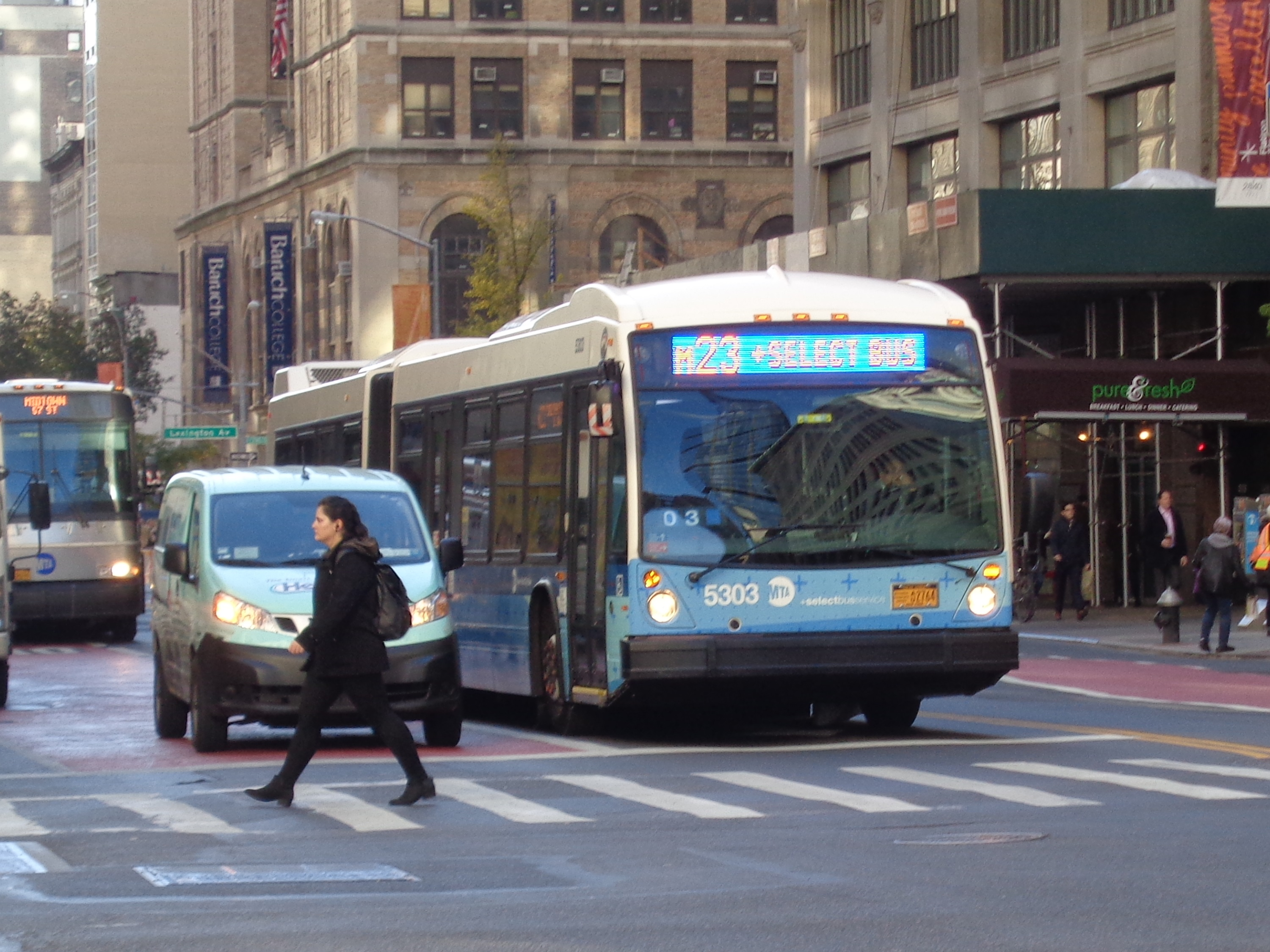 A Chelsea Piers-bound M23 Select Bus Service at East 23rd Street and Park Avenue in Midtown Manhattan.